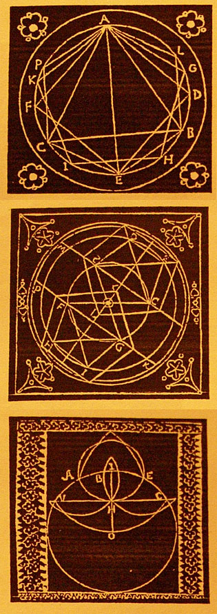 A group of three memory seals, all taken from 16th century editions of the works of Giordano Bruno, which are in the public domain.